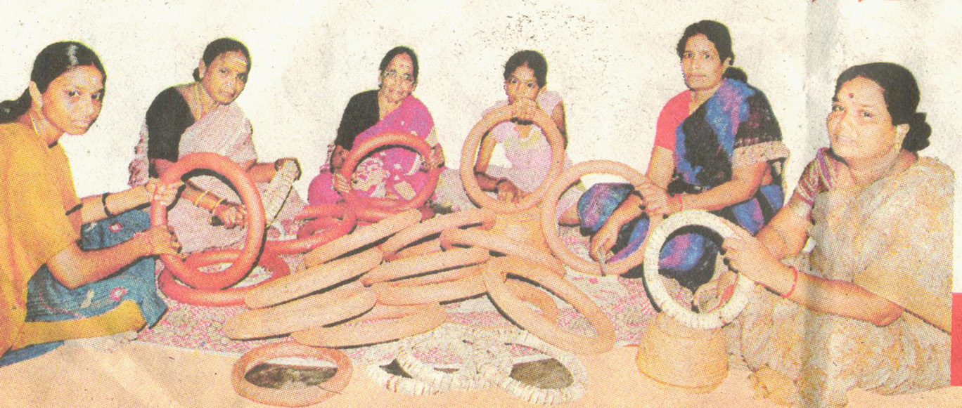 the 'thavil' music instrument making inTamil nadu, India